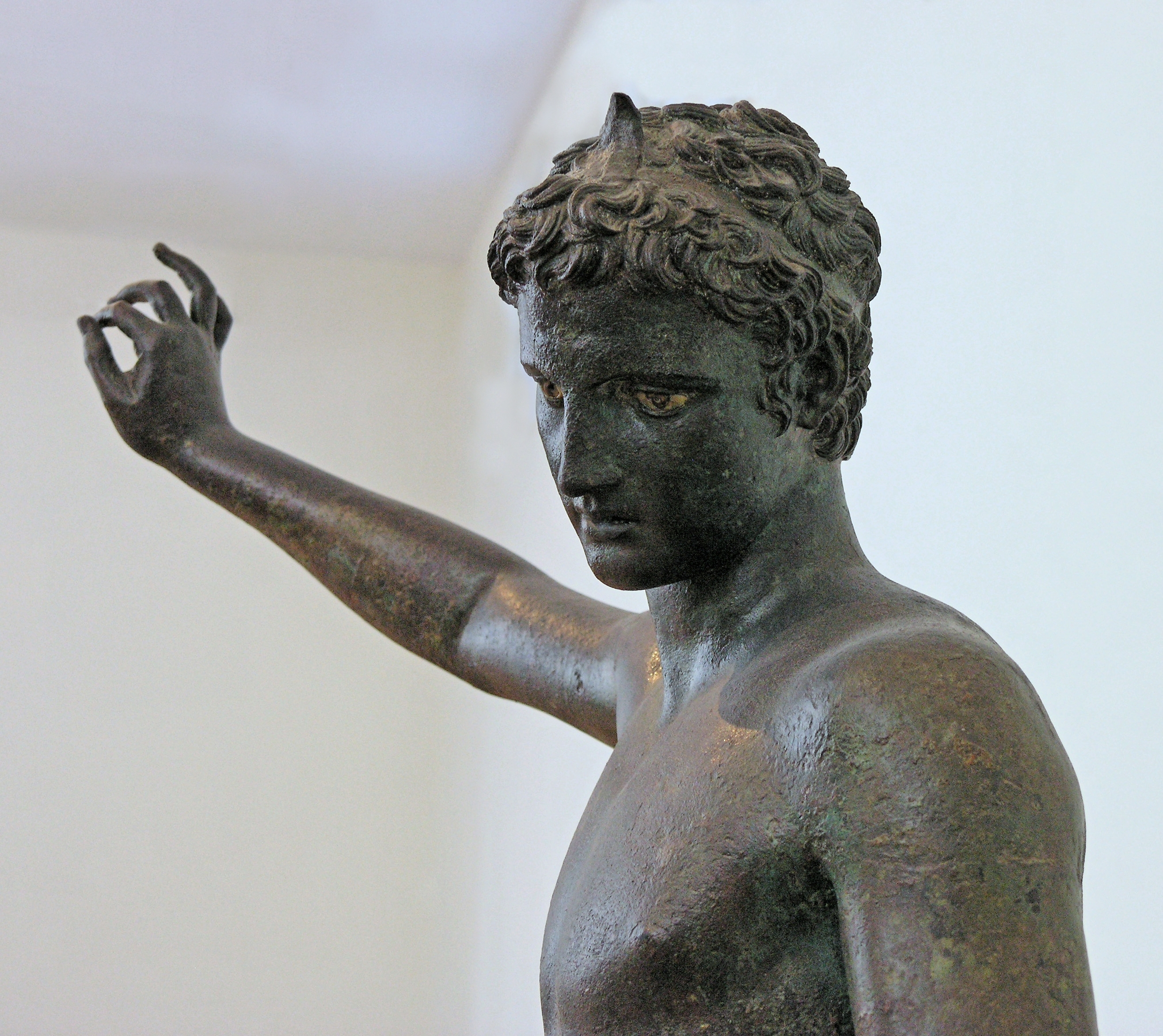 Marathon Youth or Ephebe of Marathon. Bronze statue of a young athlete, found in the sea near Marathon (Attic coast). The left hand was replaced at a later date by another shaped as a lamp. Work of the Praxiteles school, ca. 340-330 B.C.